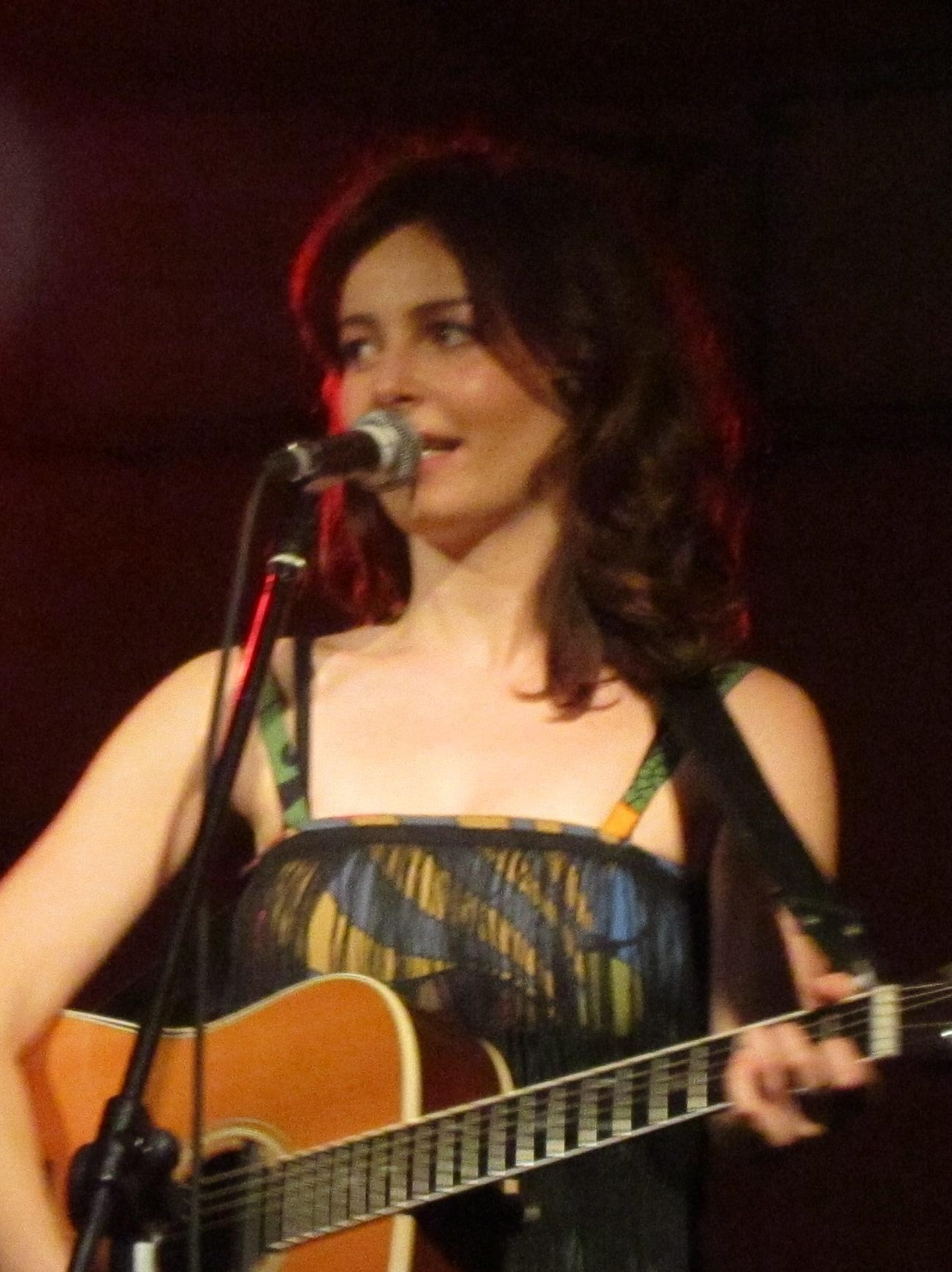 Violante Placido in concert in Cantù (18-06-2010)